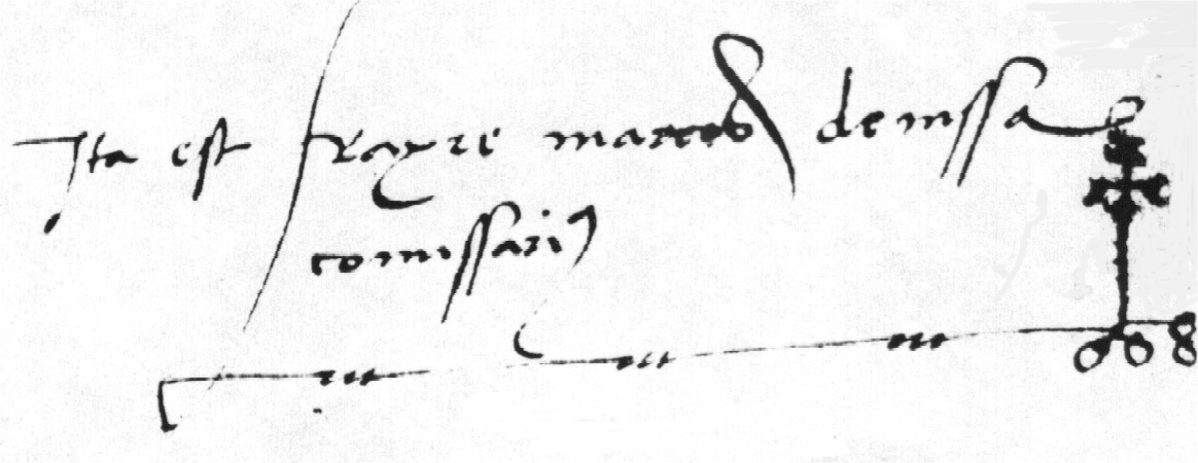 Hand written signature of Fray Marcos de Niza, found at the bottom of his "Poder de Fray Marcos de Niza a favor del Señor Mariscal", Santiago de Quito, August the 29th of 1534. To be read as "Ita est, Frayre marcos de nissa, comissaris"